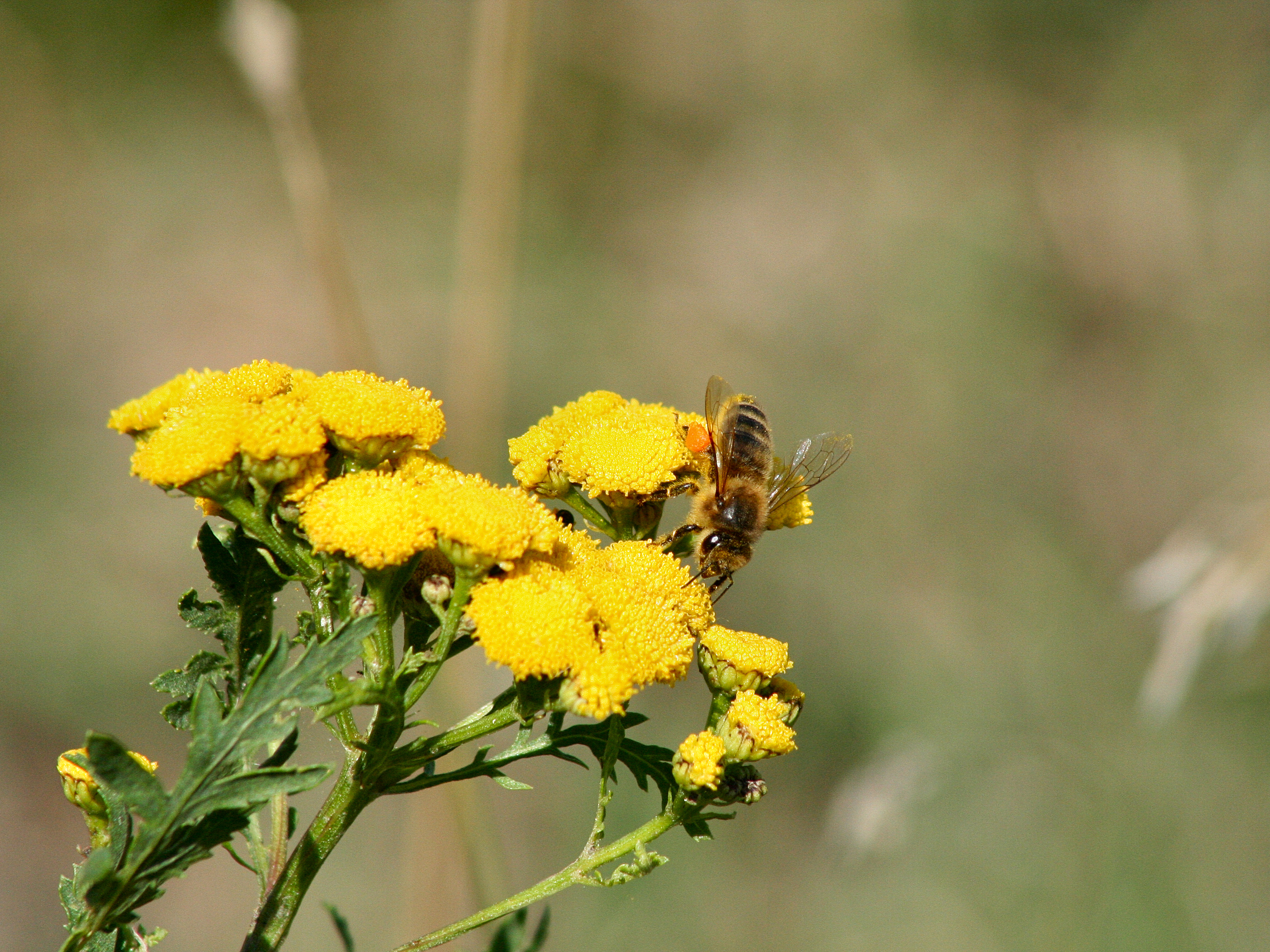 Honey bee with filled pollen baskets.